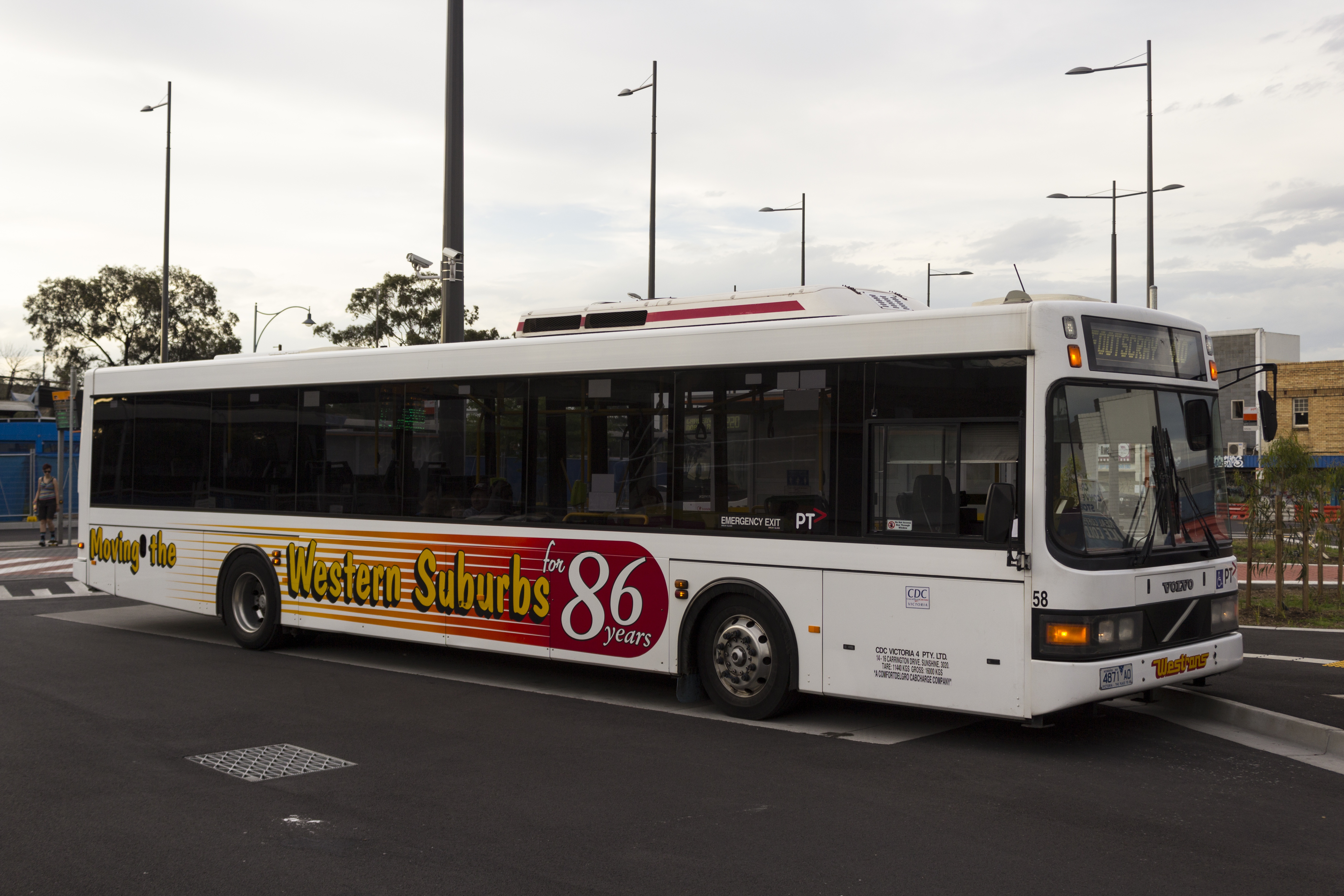 Westrans number 58 (4871AO) Volvo on route 410 at Sunshine railway station, December 2013